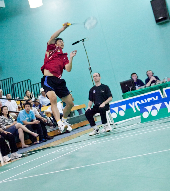 Chen Hung-Ling